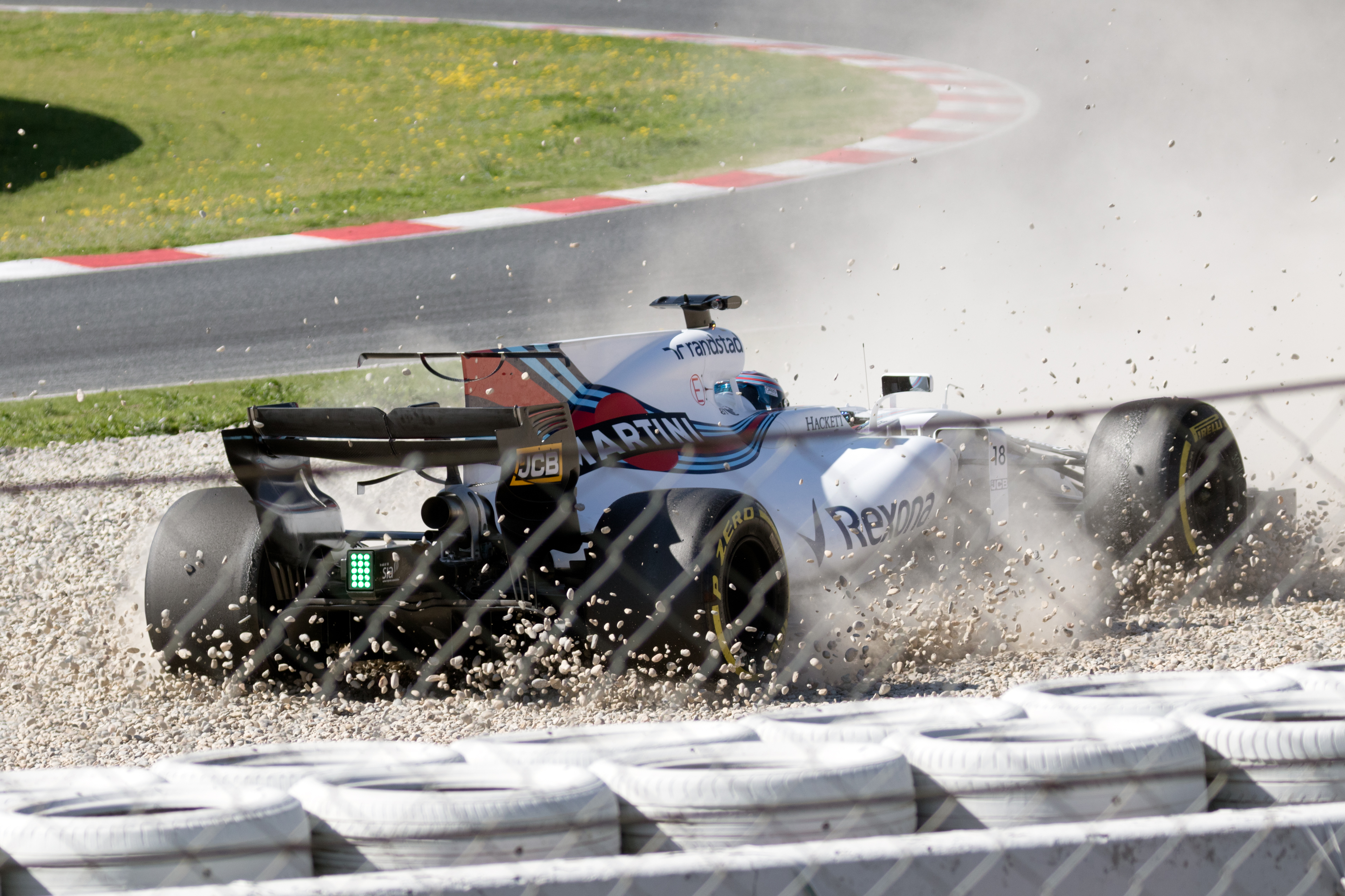 Formula One 2017 Catalonia test (27 February-2 March): Lance Stroll (Williams)